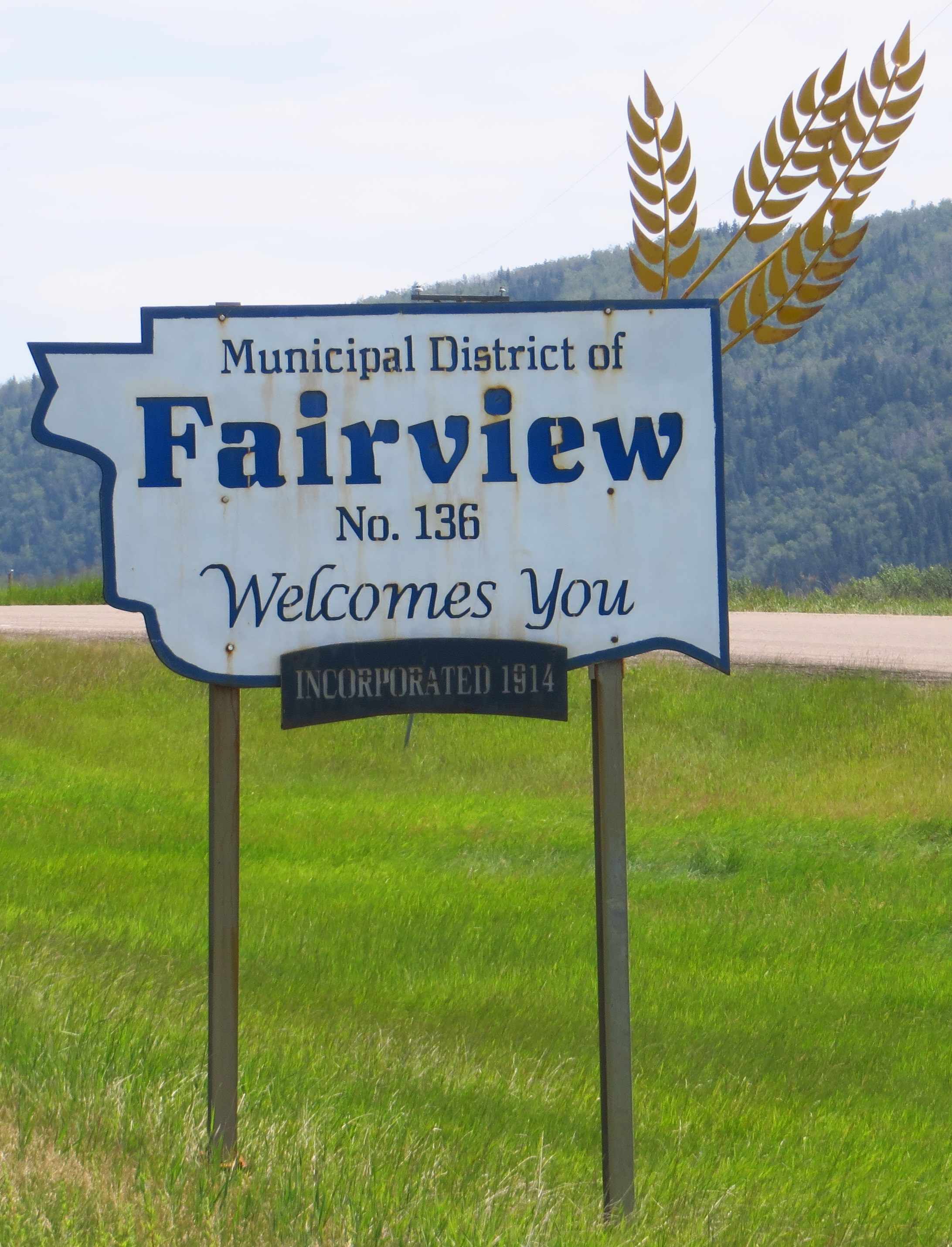 A sign welcoming drivers to the MD of Fairview